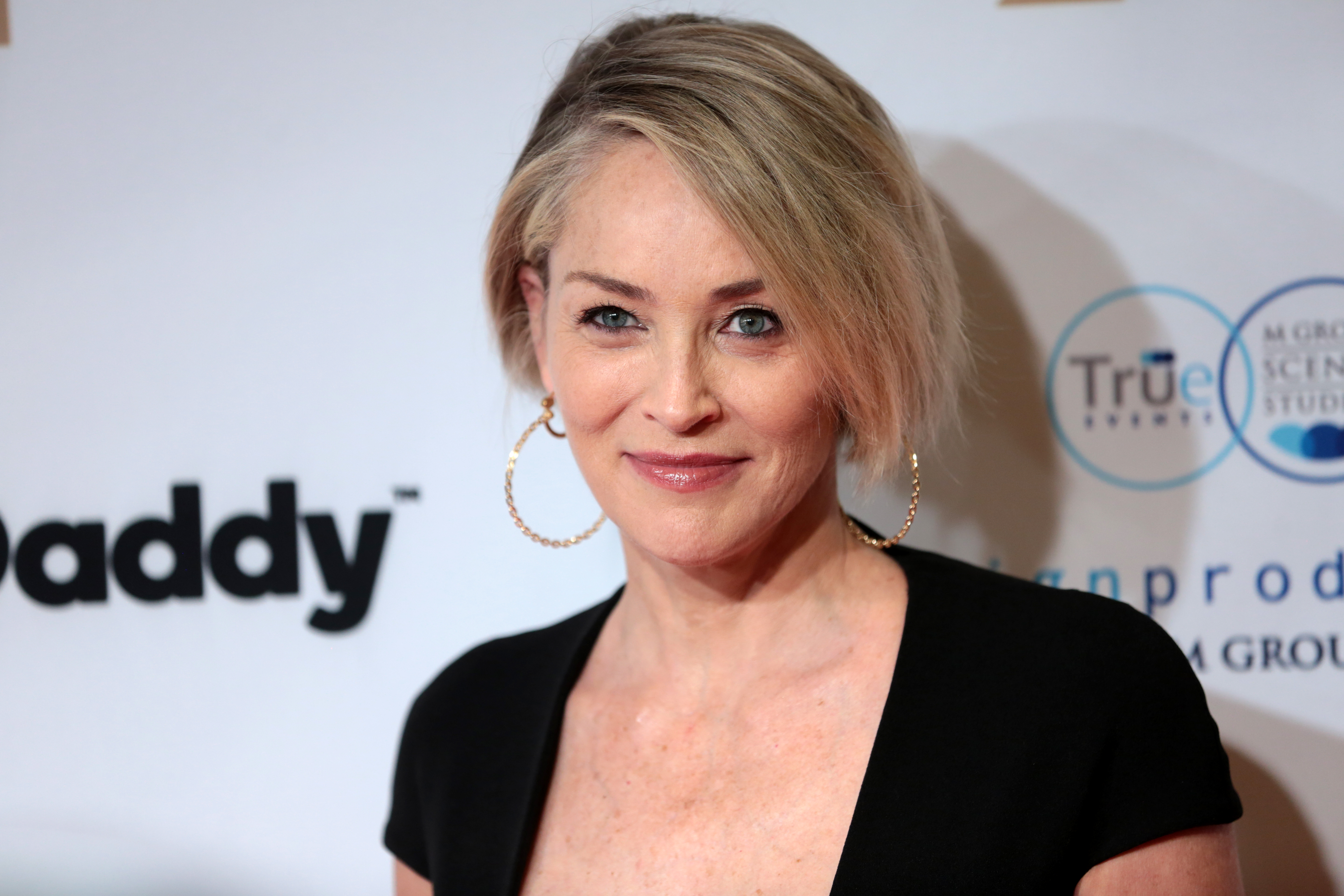 Sharon Stone on the red carpet at Celebrity Fight Night XXIII at the JW Marriott Desert Ridge Resort & Spa in Phoenix, Arizona.